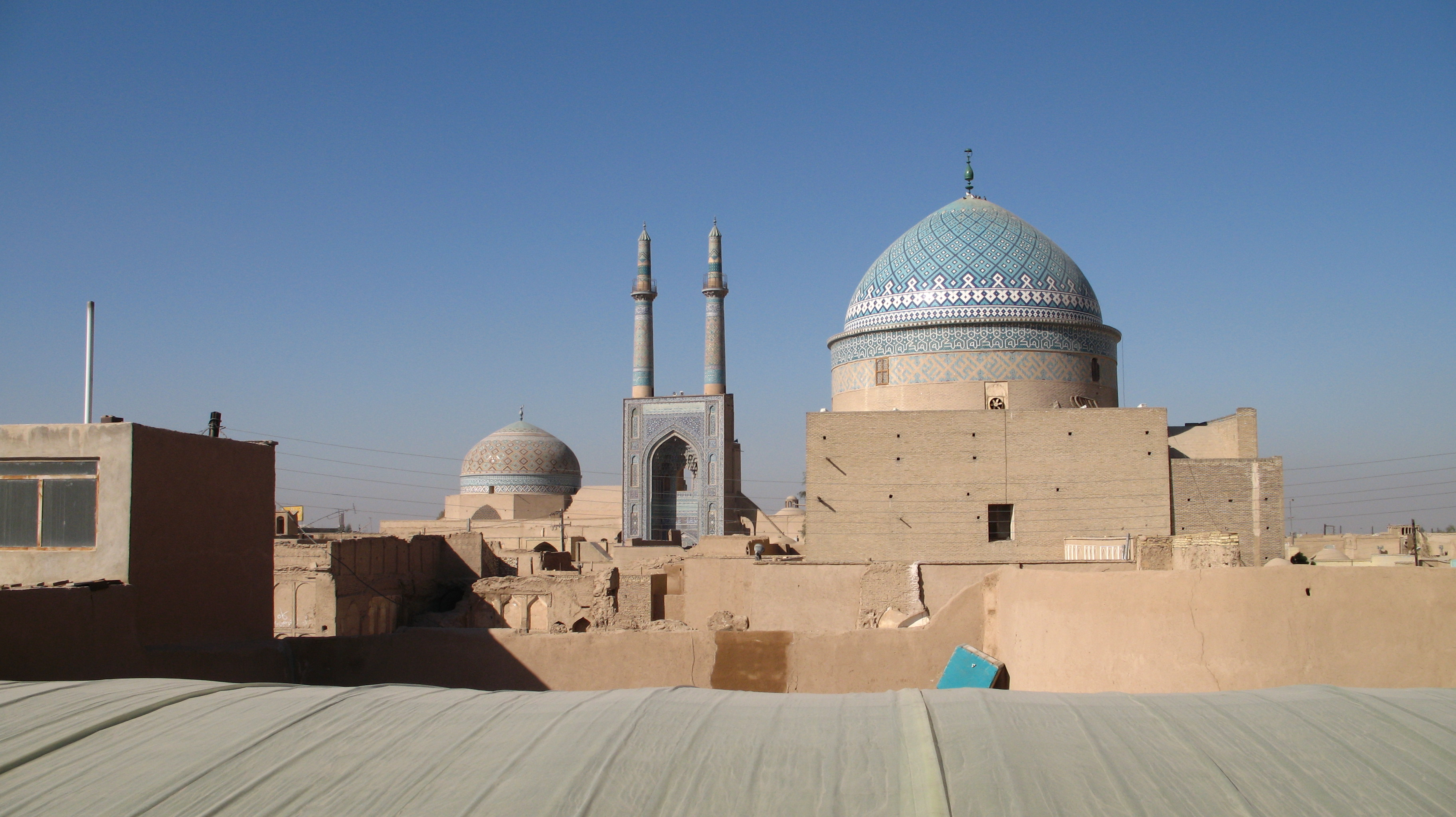 In the middle is Masjed-e Jomeh, Yazd, Iran.